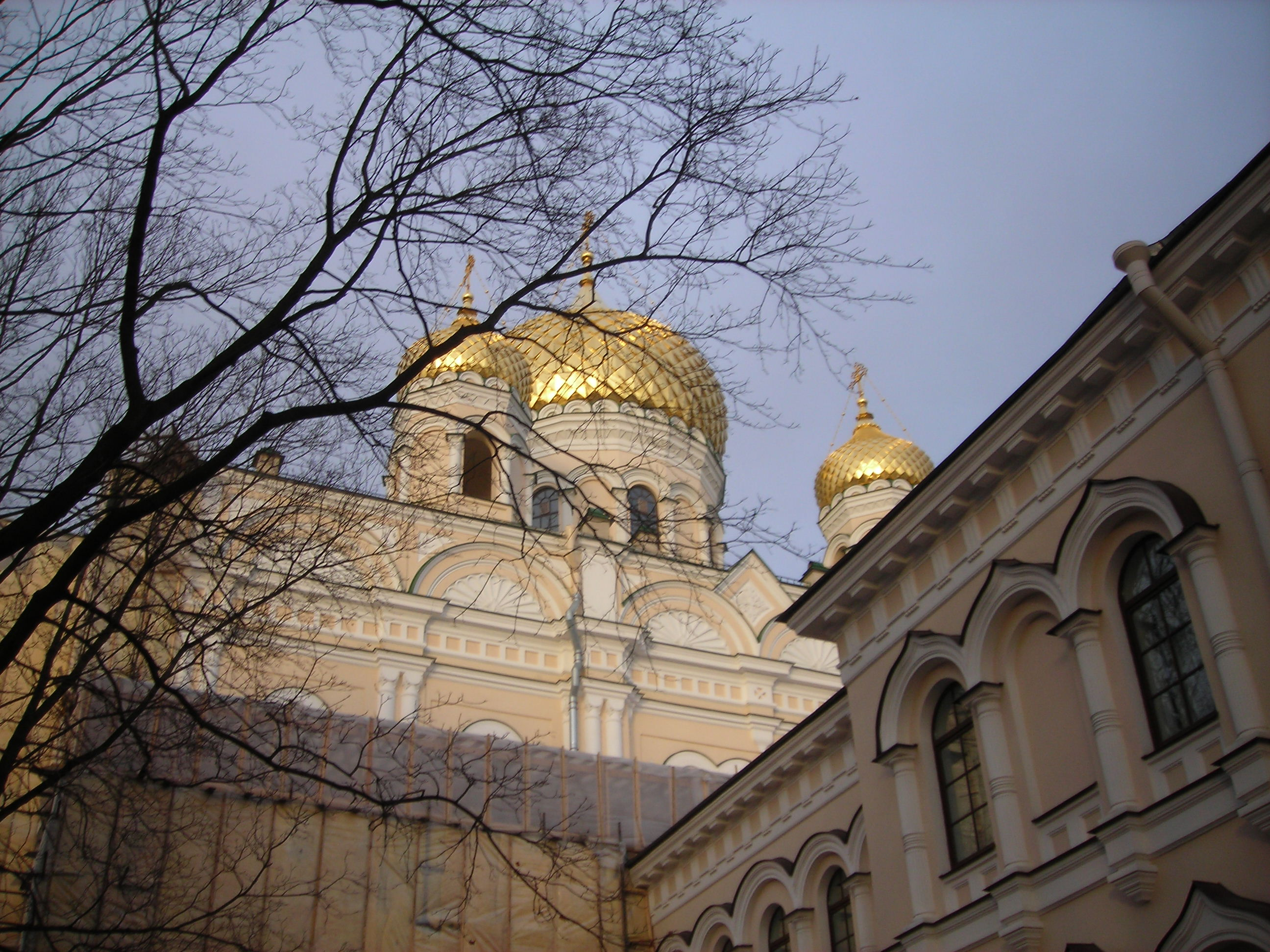 Saint Petersburg (Russia), Moskovsky Avenue.